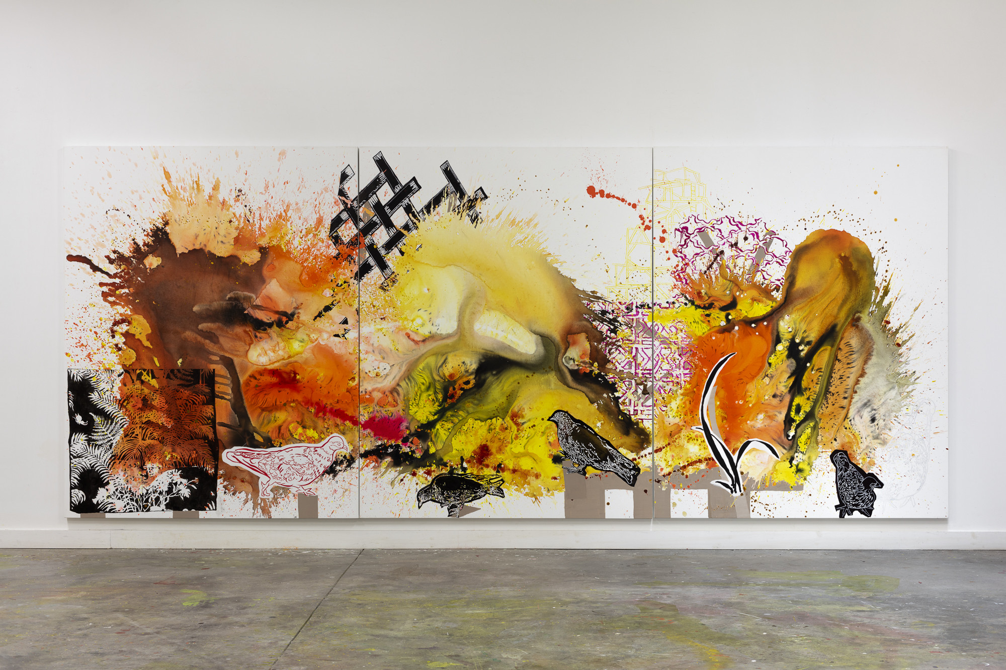 2019, Ink, 72 x 171 inches